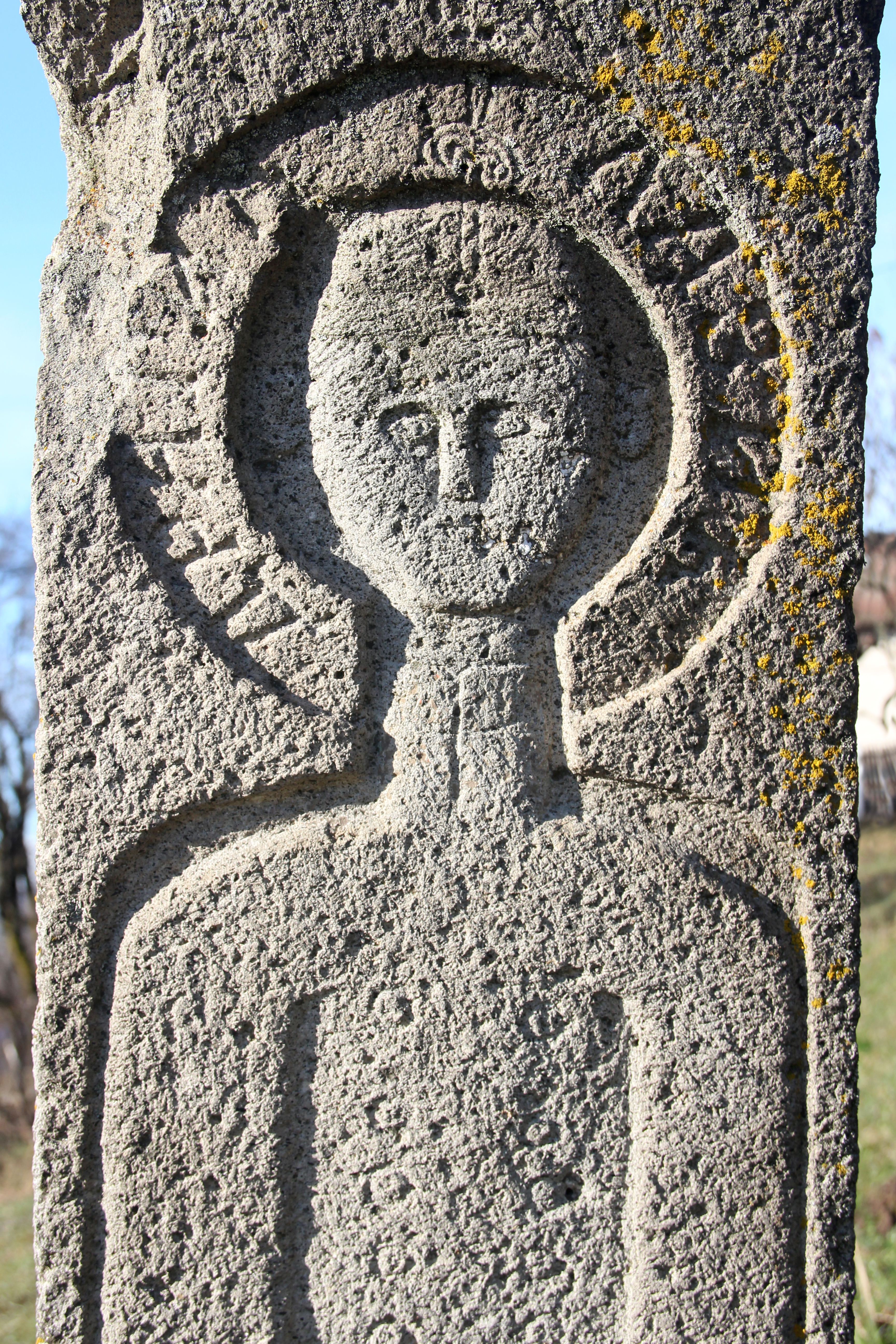 Roadside tombstone erected in memory of a soldier D. Lazic (name illegible). It is located at the entrance to Gornji Milanovac (the former area of village Nevade), nearby the factory "Metalac".